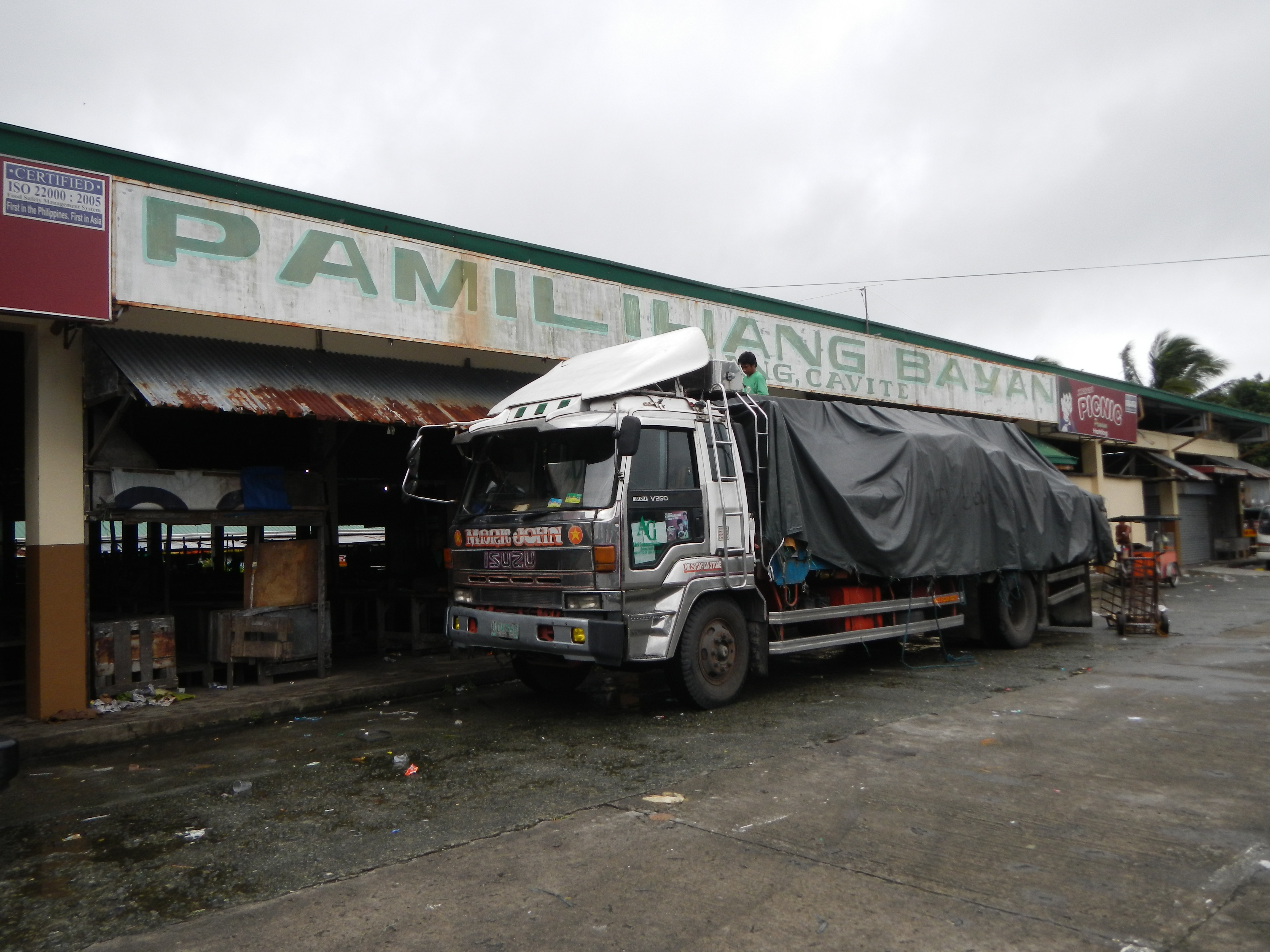 UploadWizard photos --- (general description) of landmarks, heritage, culture, comprehensive, photography) of – Indang, Cavite [1] [2] Coordinates: 14°12'10"N 120°50'25"E [3] Geographical location: Cavite, Region 4, Philippines, Asia Geographical coordinates: 14° 11' 43" North, 120° 52' 37" East [4] - the junction, crossing, entrance to the town panorama - Welcome sign of Barangay Poblacion and site of Sebastien Montessori to be built, Pamilihang Bayan or Public Market, Jeep terminal, stop, Covered Basketball court, grandstand of Barangay Poblacion, to Naic and Alfonso sign, Jollibee and L Paseo Mall, among others in Centro, downtown, junction, crossing, Town Proper in the heart is the heritage Town hall of -- Indang, Cavite [5].